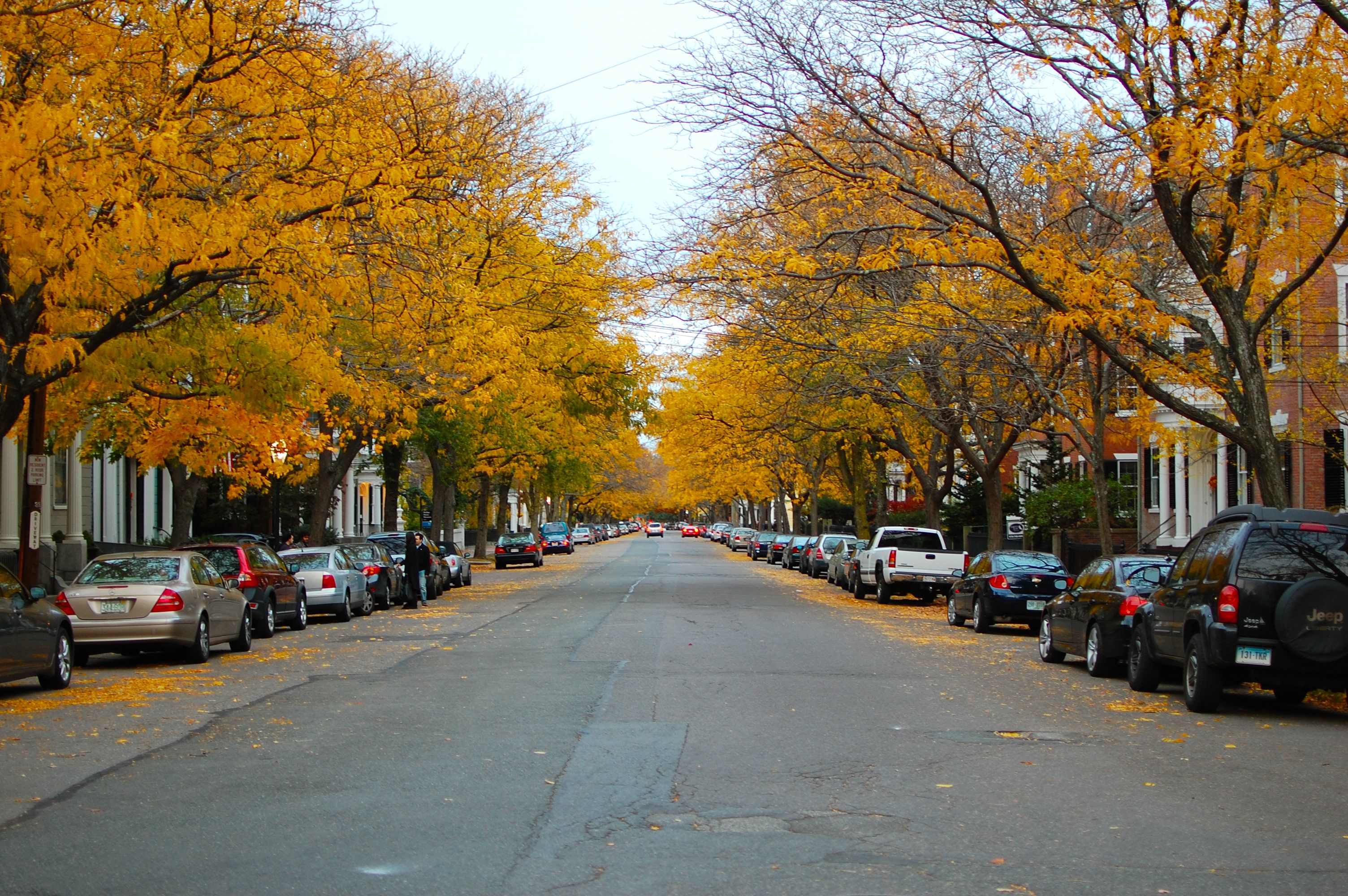 Looking east on the historic Chestnut Street in Salem, Massachusetts. Chestnut Street is noted as one of America's architecturally finest.